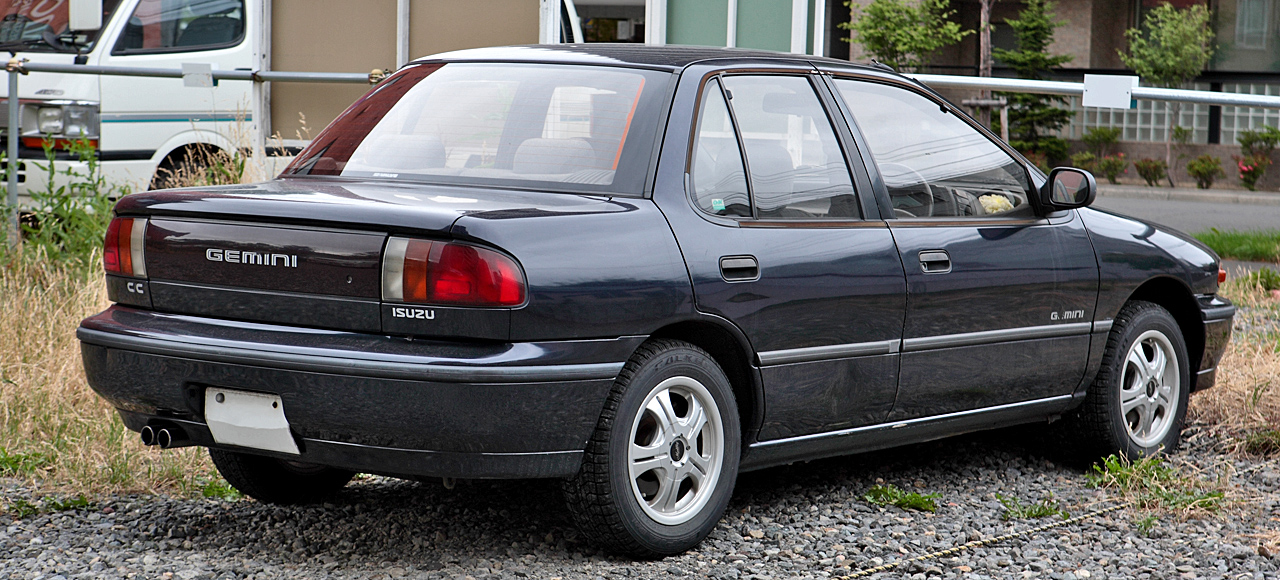 Isuzu Gemini sedan 1.5C/C